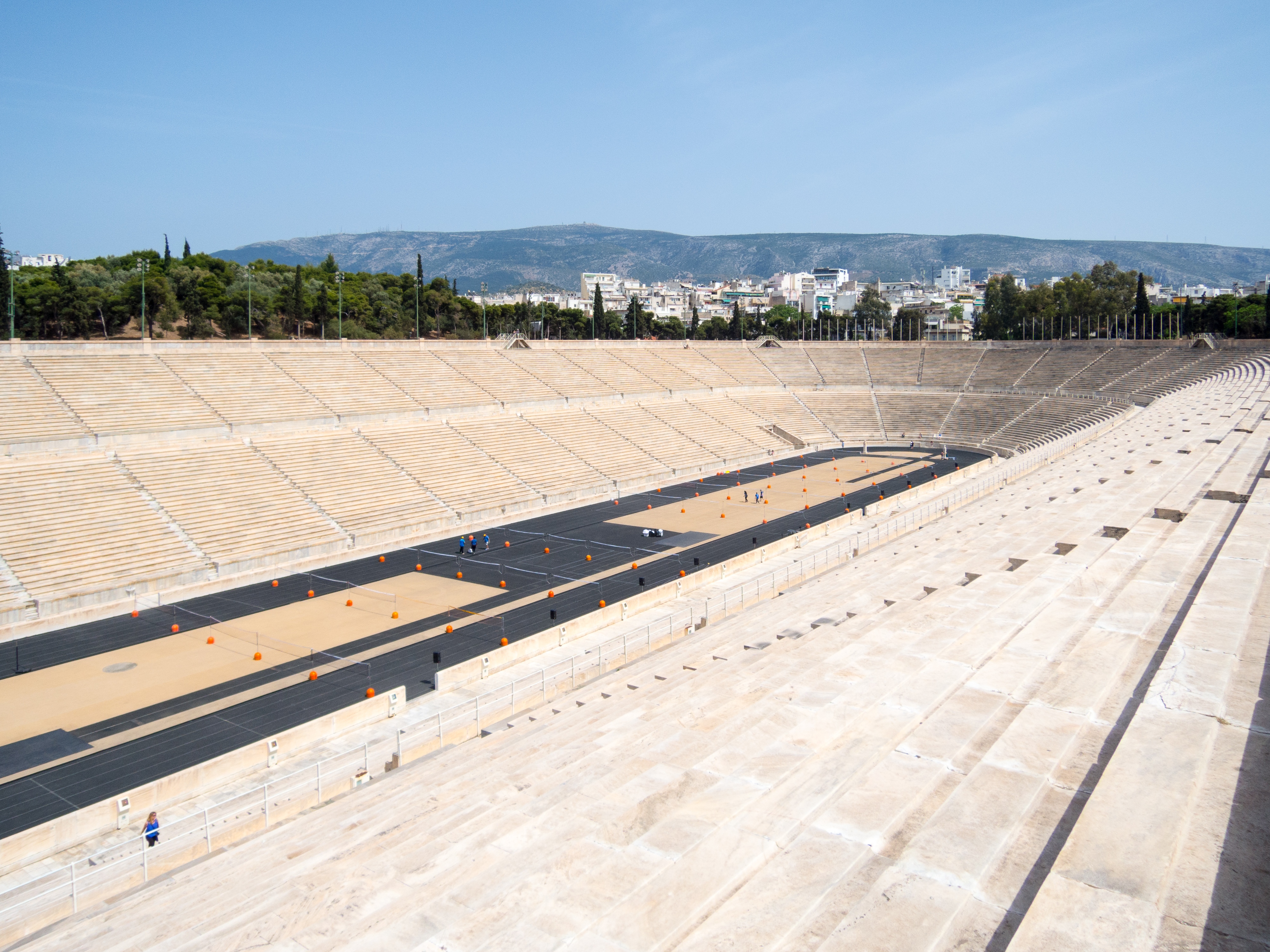 One of the most famous cities in europe. Eine der populärsten Städte in Europa.